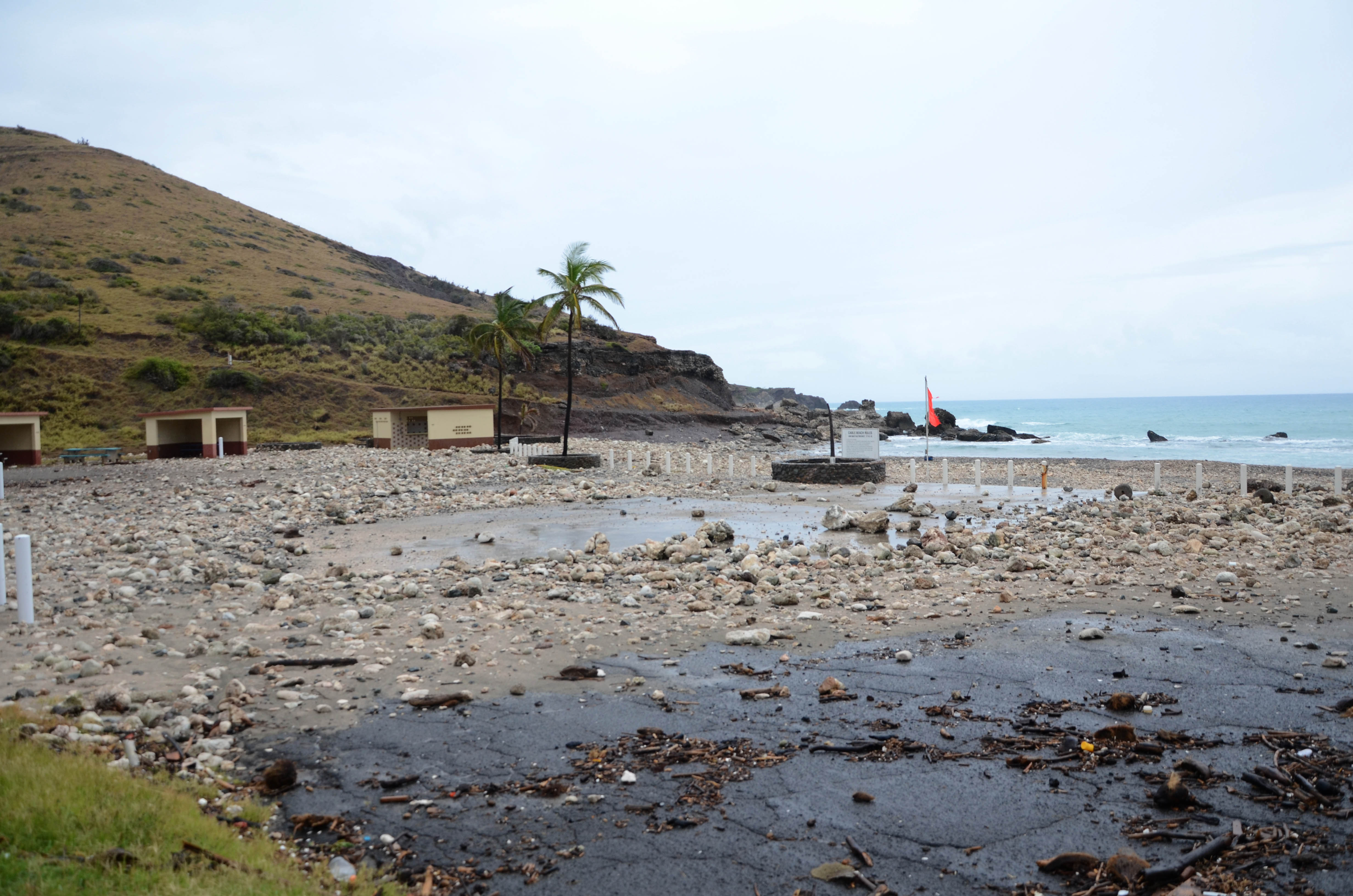 NAVAL STATION GUANTANAMO BAY, Cuba (Oct. 5, 2016) Beach erosion at Cable Beach caused by Hurricane Matthew at Naval Station Guantanamo Bay, Oct. 5. Matthew was a Category 4 hurricane with maximum sustained wind speeds of 145 mph and wind gusts of 170 mph. (U.S. Navy photo by Petty Officer 1st Class Kegan E. Kay/Released) 161005-N-OX321-101 Join the conversation: navylive.dodlive.mil